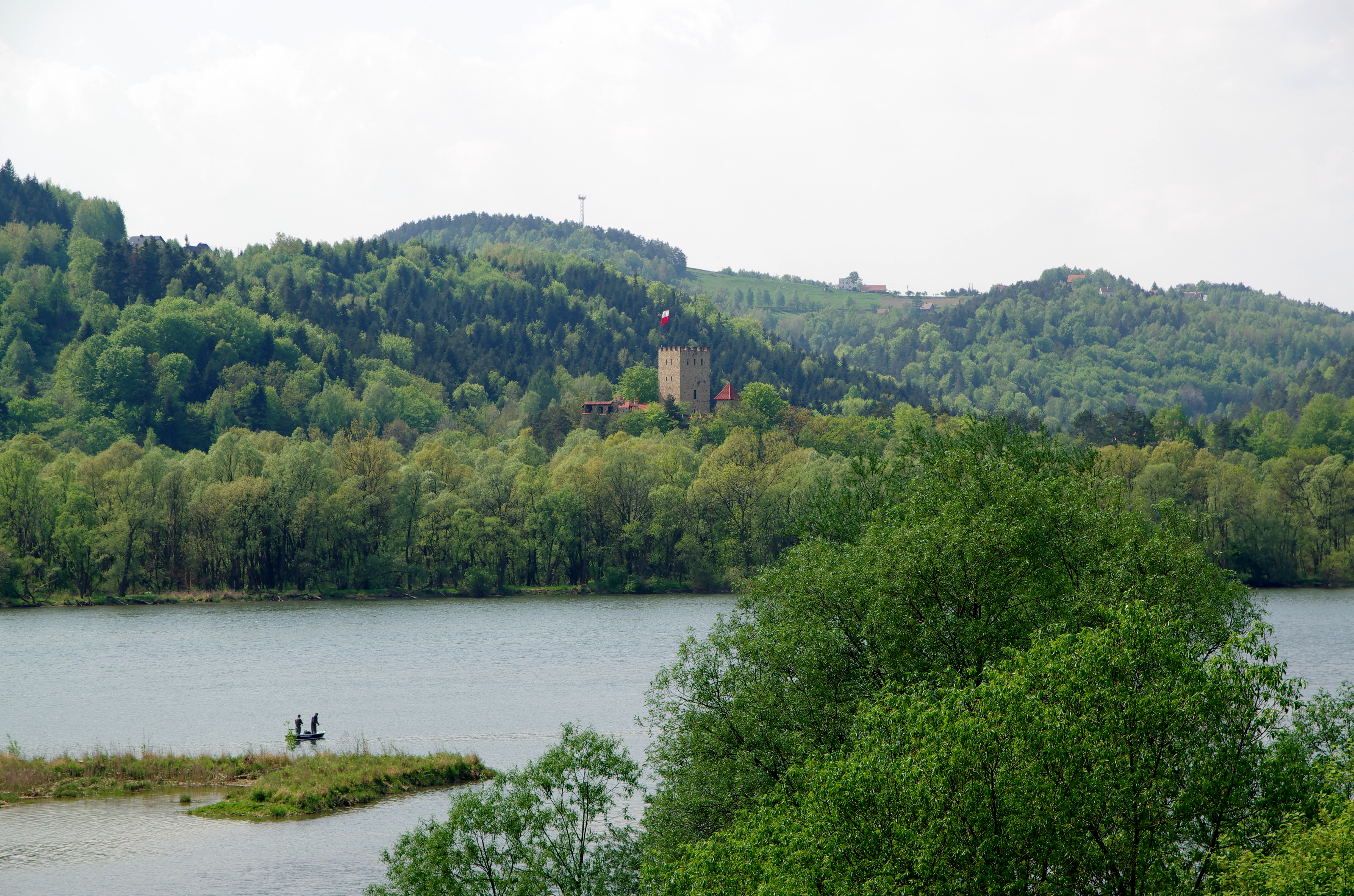 Czchów Lake and Tropsztyn Castle